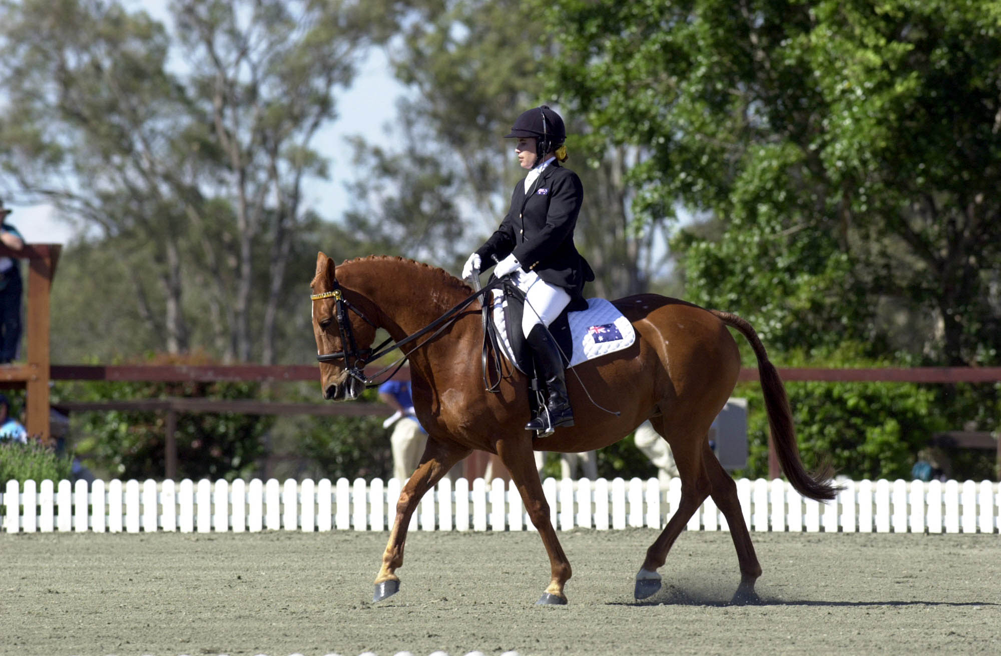 Action shot of Australian equestrian Marita Hird riding O.P. Fleur at the 2000 Sydney Paralympic Games Individual Dressage Grade 3 competition